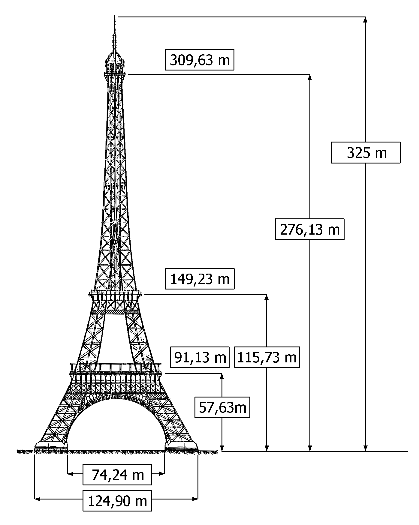 Croped (without france) version of sizes of Effel Tower.